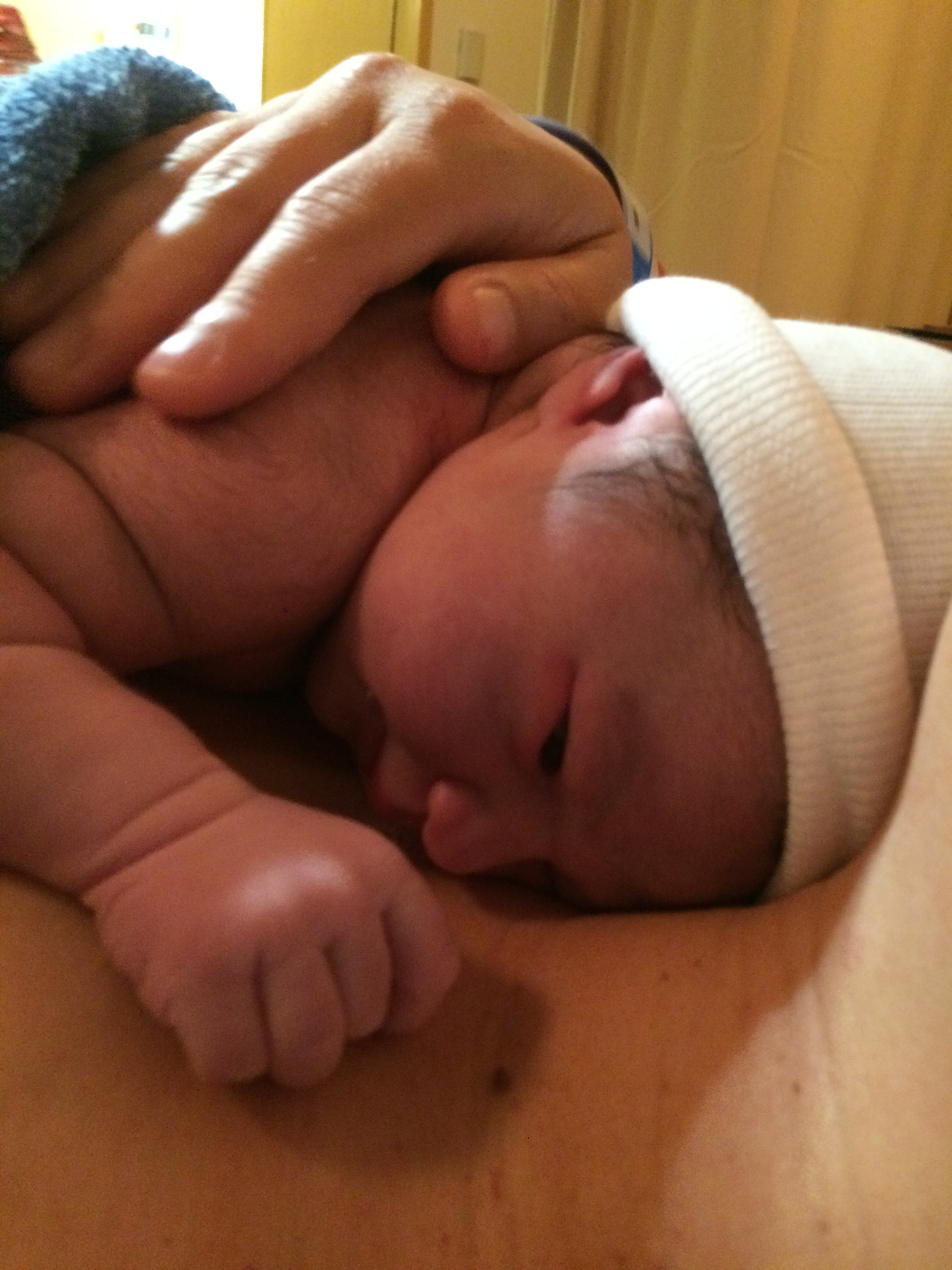 Newborn baby placed skin to skin on mother